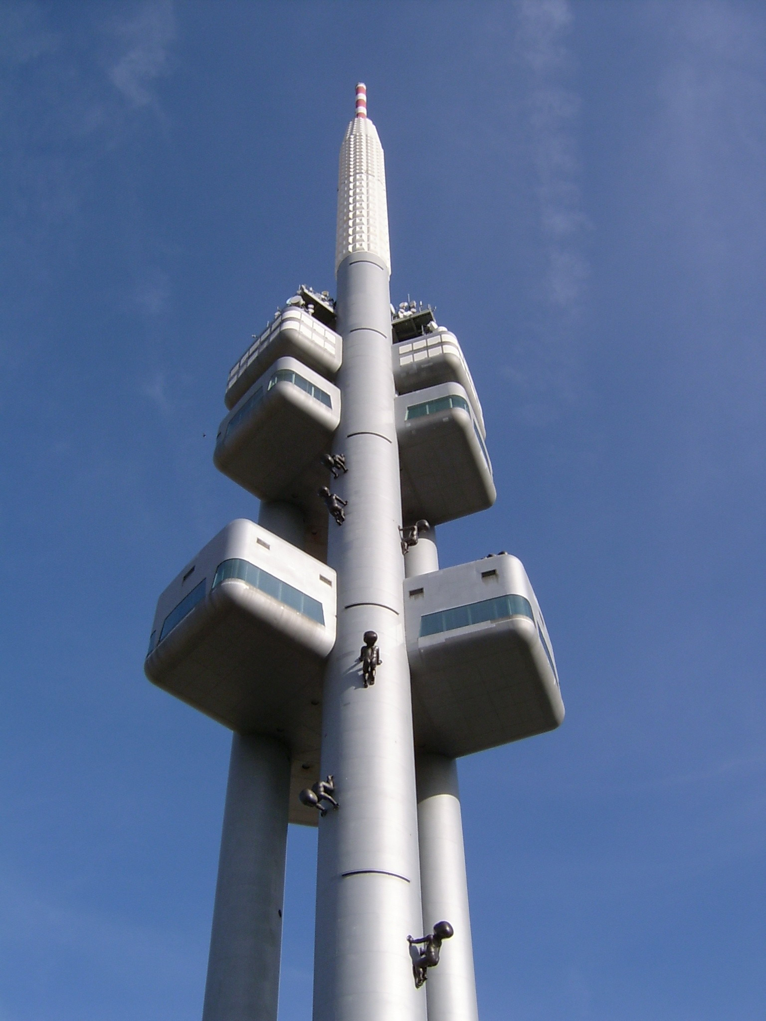 Žižkov Television Tower in Prague. sculptures by David Černý For more translations SEE BELOW